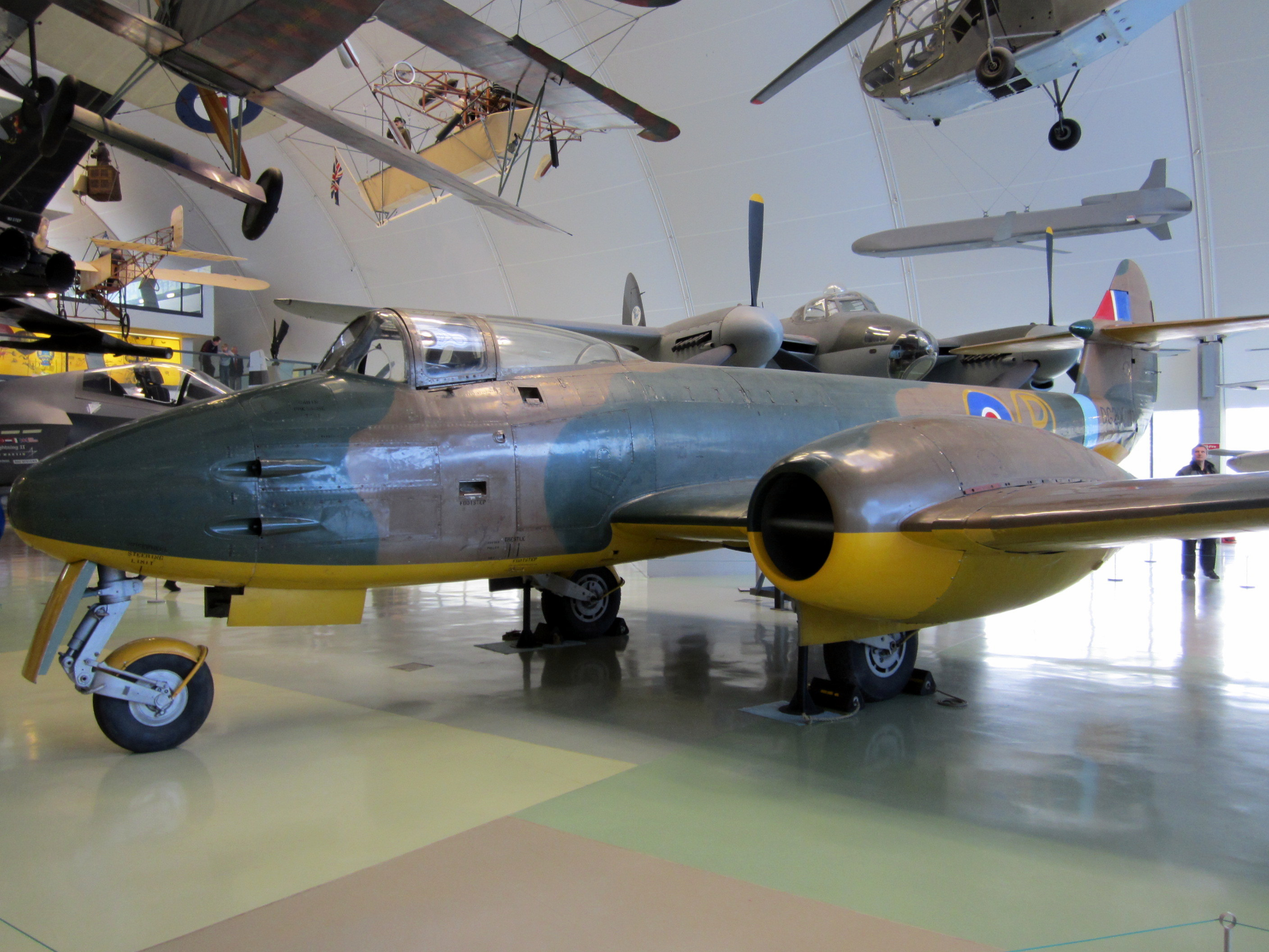 Gloster Meteor prototype DG202/G on display at RAF Museum London in November 2011